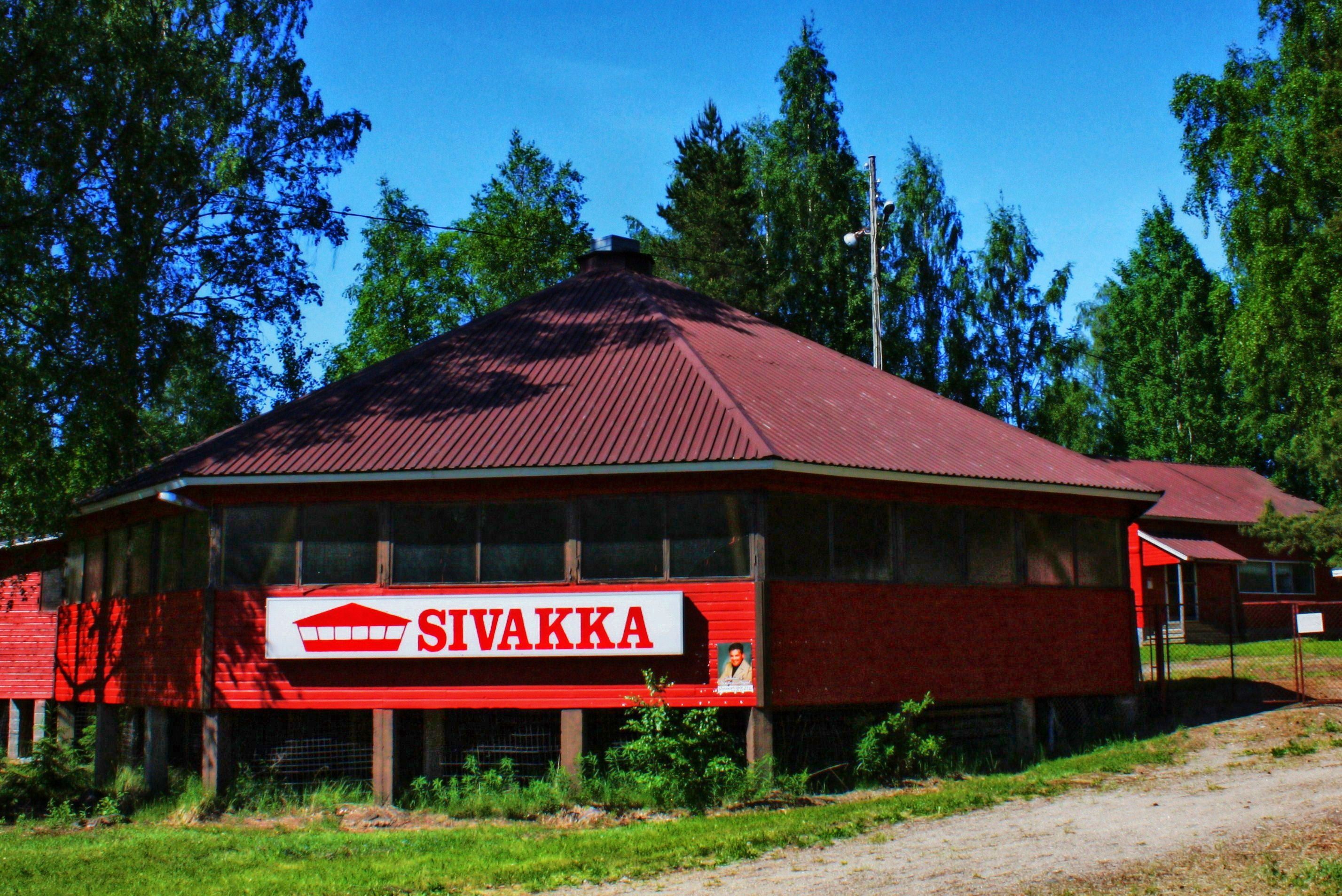 Sivakan lava (Sivakka Dance Pavillion) is one of the oldest dance pavillions in Finland. Sivakan lava is located in the village of Sivakkavaara in the municipality of Kaavi, Northern Savonia, Finland.